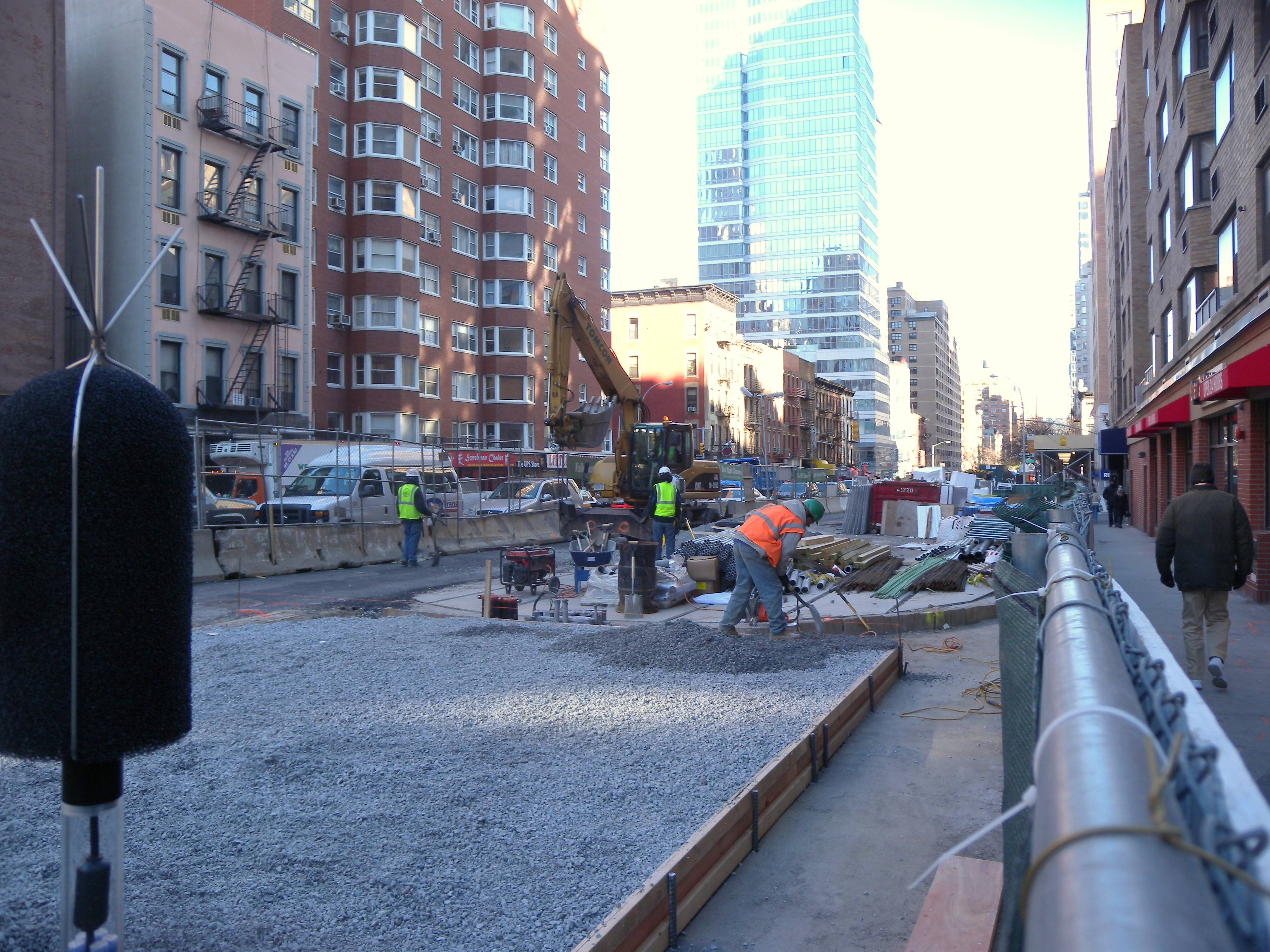 Looking north from 72d Street as new Second Avenue Subway in New York City is covered with crushed stone to underlie new paving.